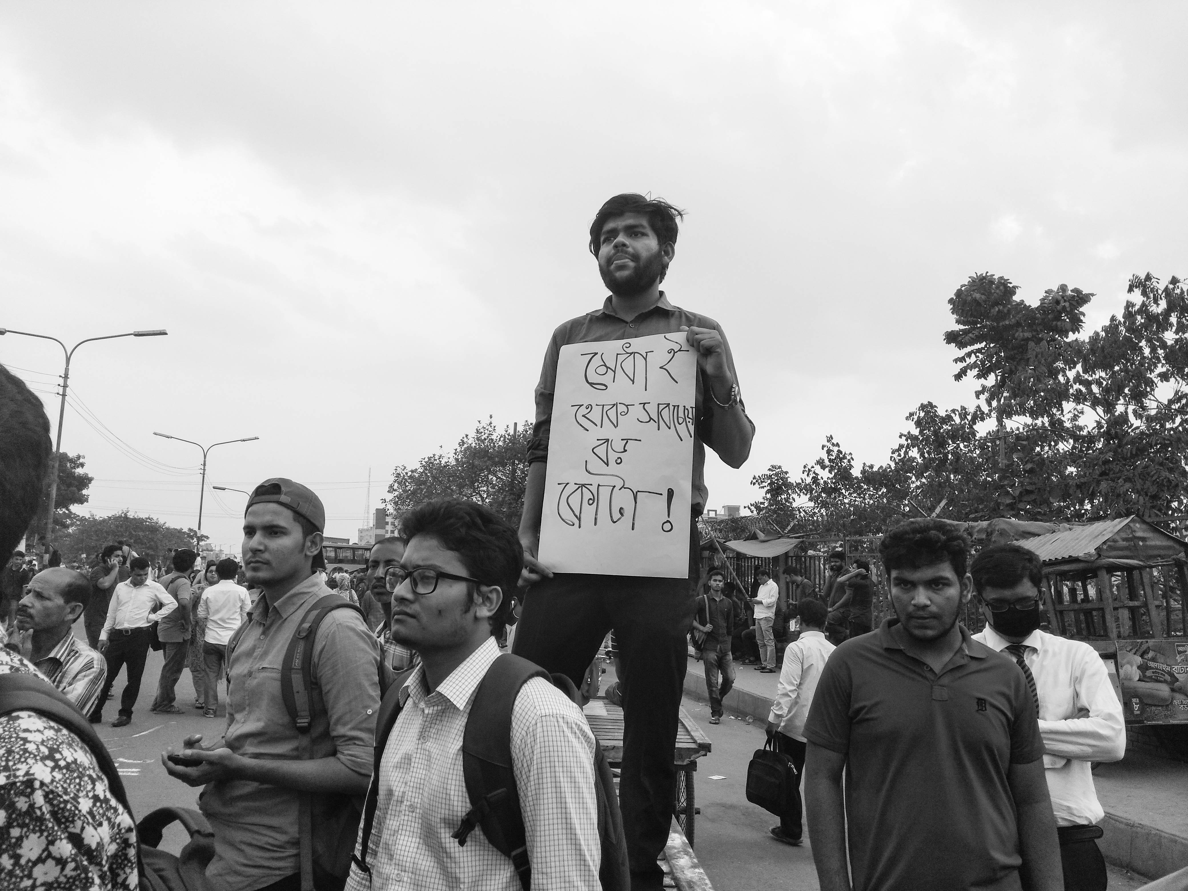 Students of Bangladesh demanding reforms in the quota system in public service, April 2018.